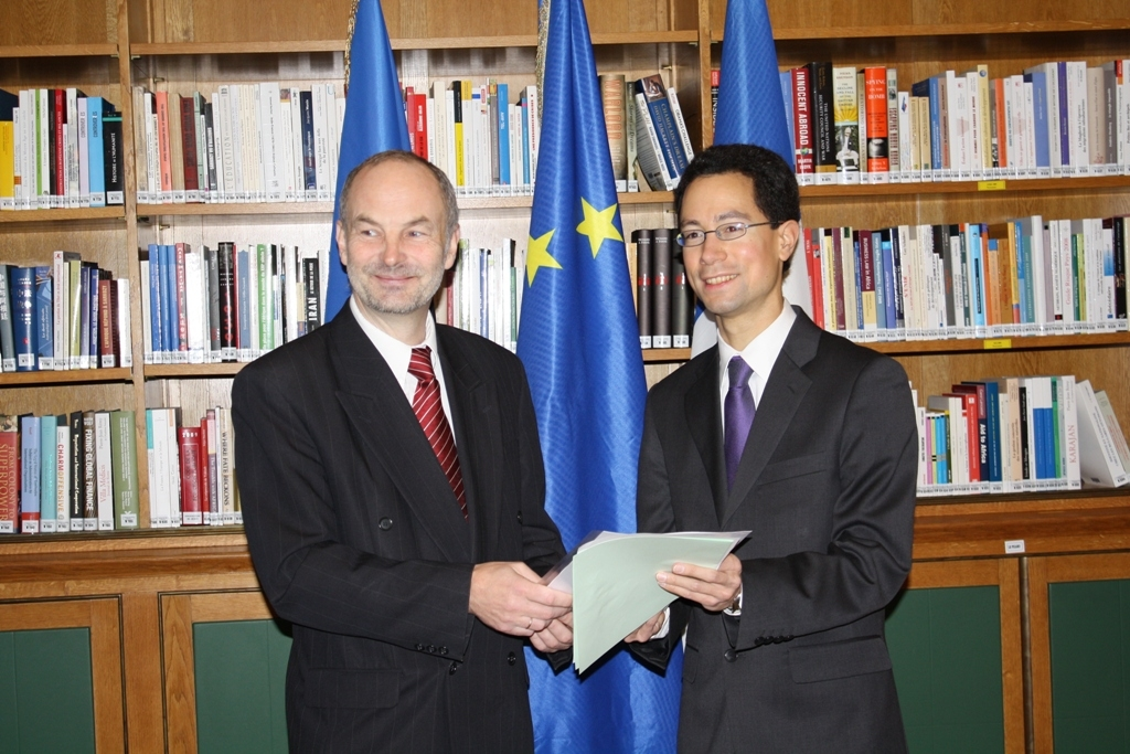 Estonia became a full member of OECD after Estonian Ambassador to France Sven Jürgenson presented Estonia’s accession treaty to the French Foreign Ministry for storage, 9th November 2010